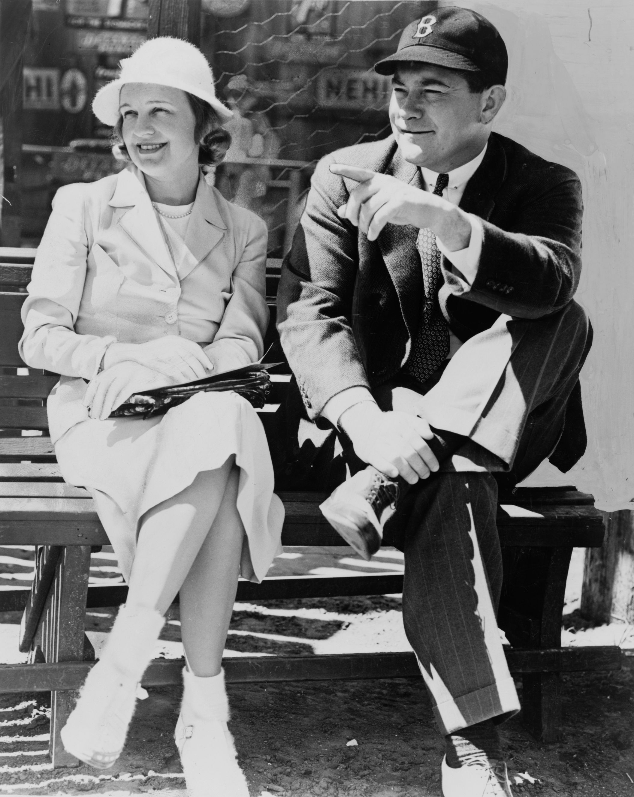 Tom Yawkey, full-length portrait, facing left, seated on a bench with his first wife, Elise Sparrow Yawkey / World-Telegram photo by Wm. C. Greene.